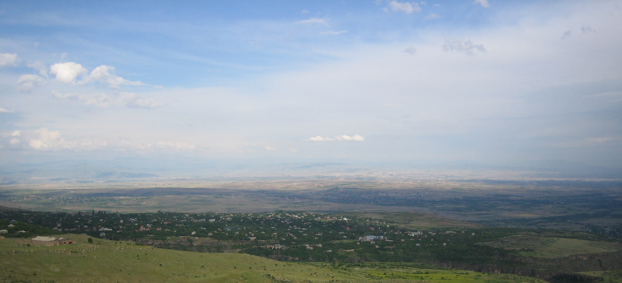 A view of Byurakan village (foreground) in the Aragatsotn region of Armenia as seen from the village of Tegher. Just above it is the town of Ashtarak; and in the background is the city of Yerevan.